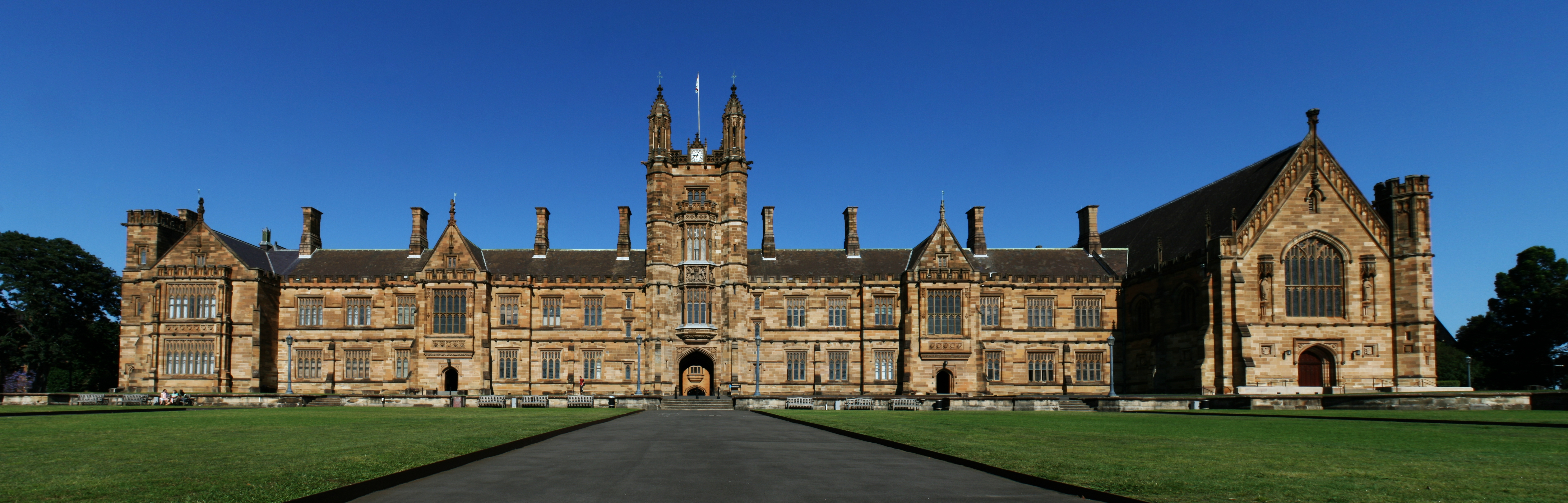 Main Building and Great Hall of The University of Sydney taken from the front lawns. Through the archway is the Main Quadrangle. The architect was Edmund Blacket. Morning sunlight highlights the sandstone building materials.